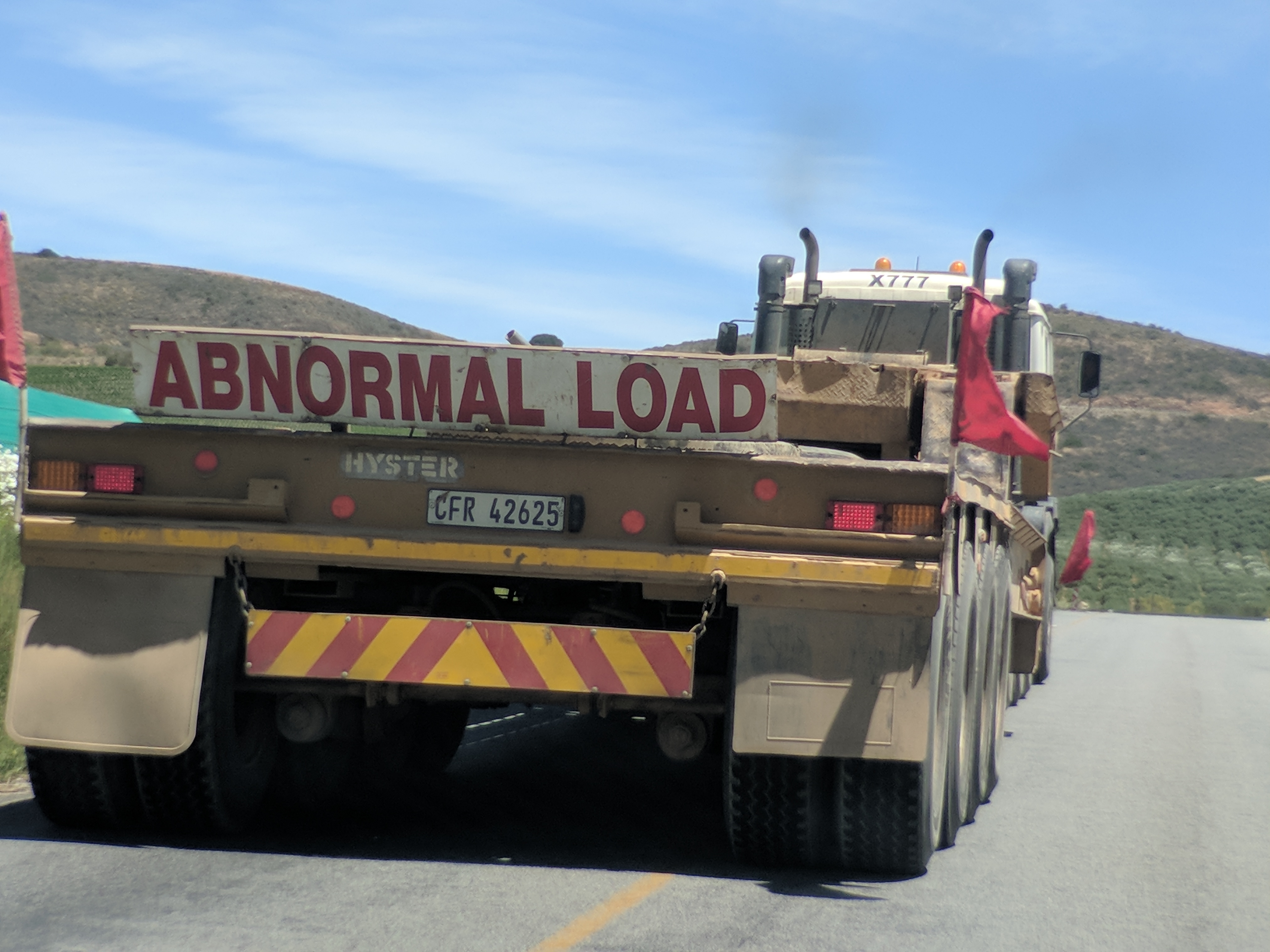 An Abnormal Load sign in the Western Cape, South Africa